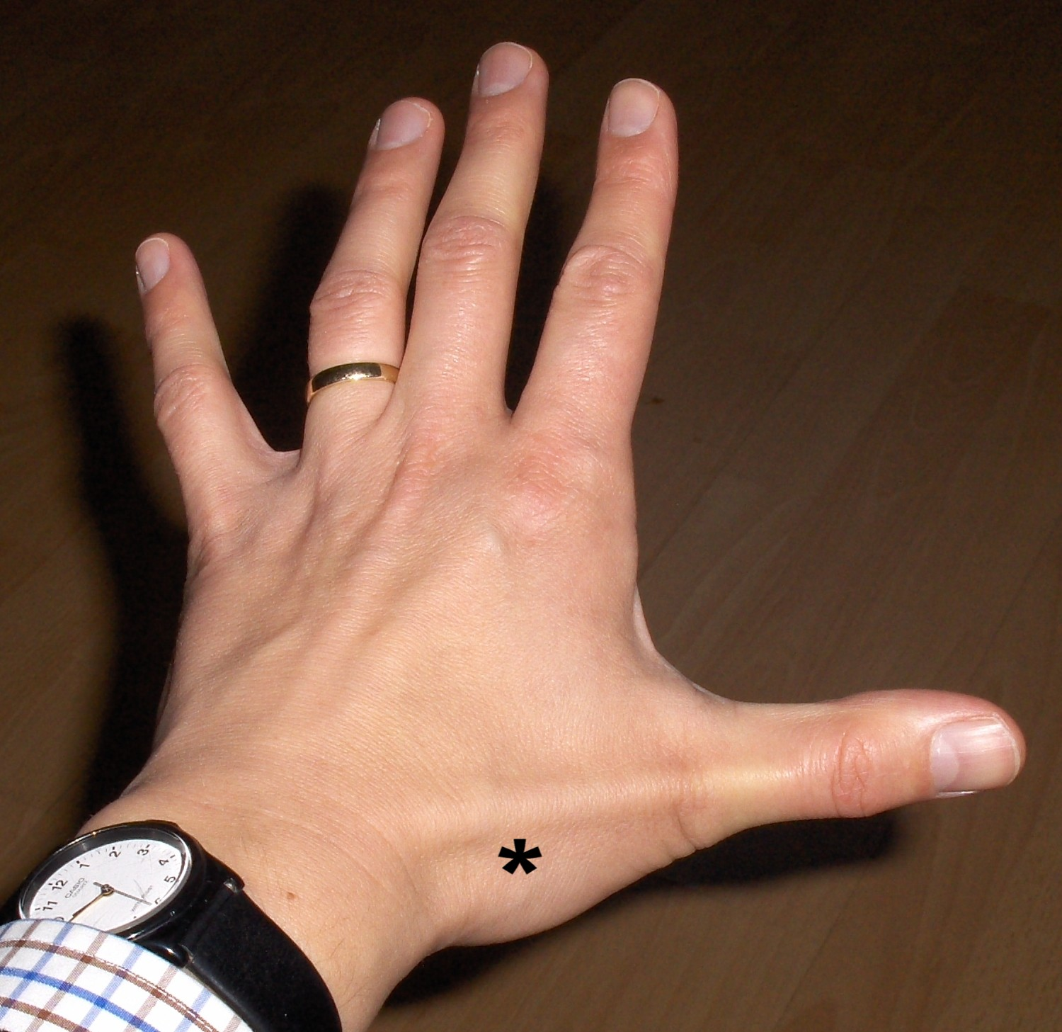 Left hand, Anatomical snuff box marked with asterisk